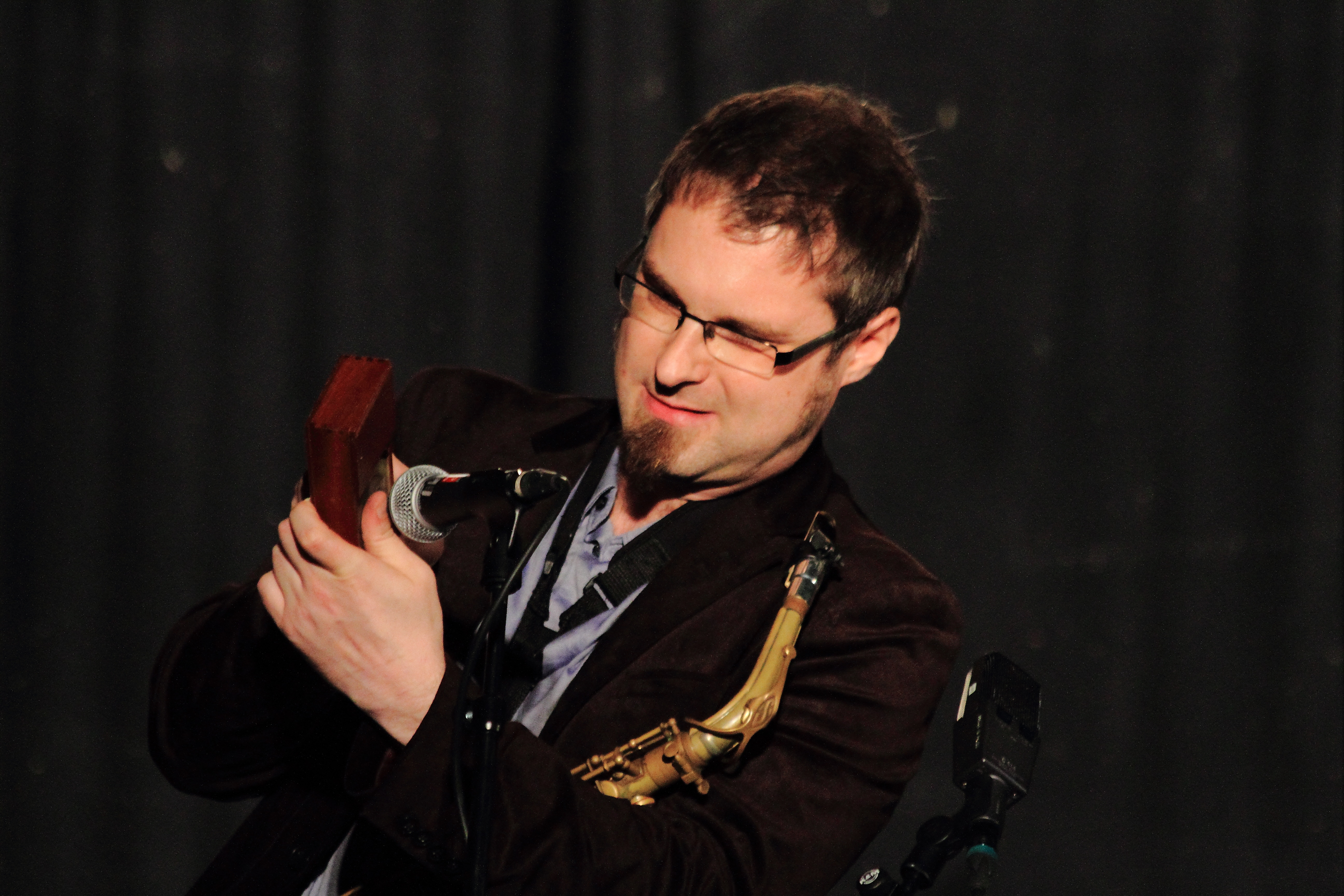 Clemens Salesny at INNtöne Jazzfestival, Austria 2016.